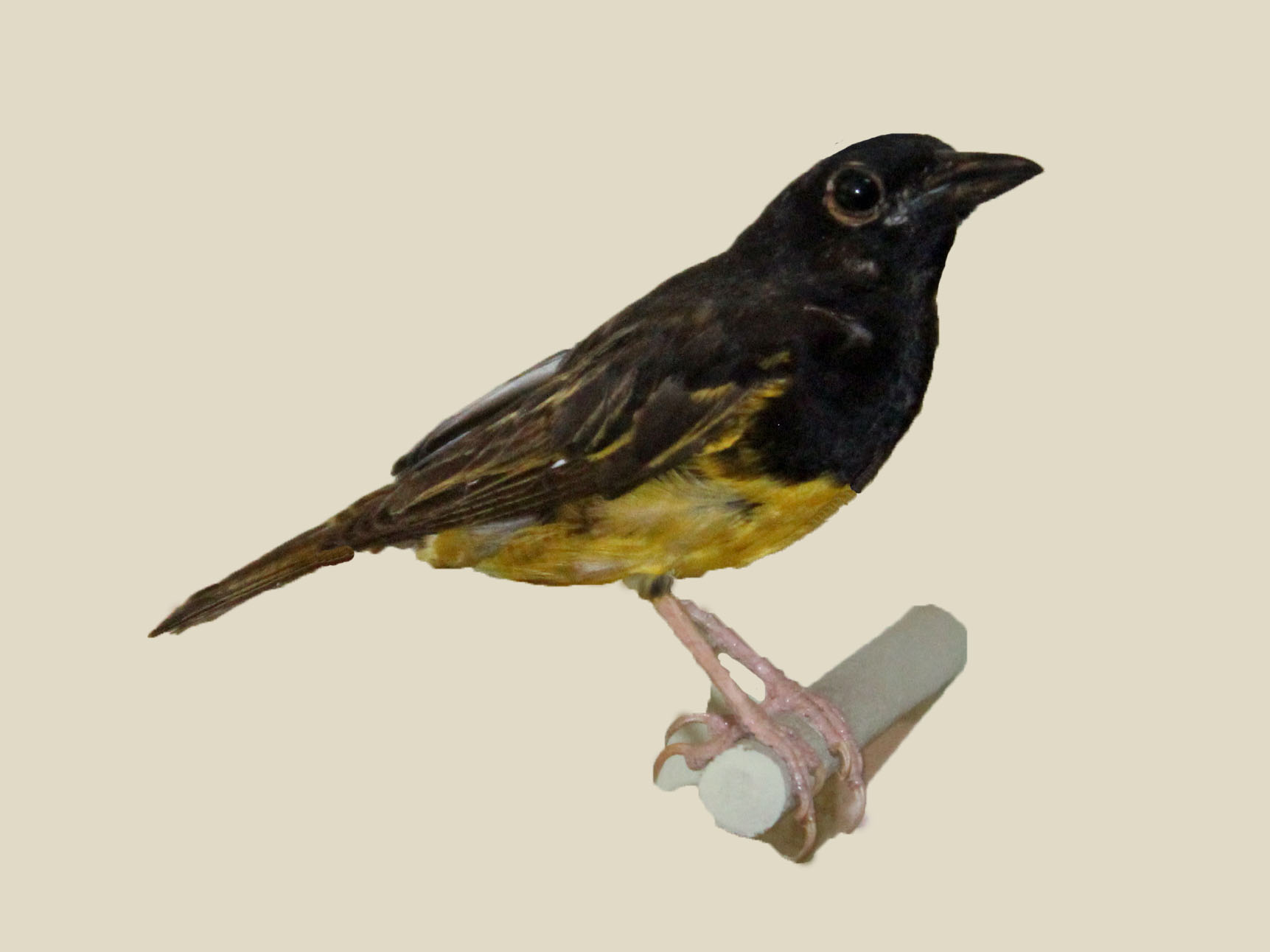 Male Clarke's Weaver (Ploceus golandi). Photograph of a specimen at Nairobi National Museum in Nairobi, Kenya.